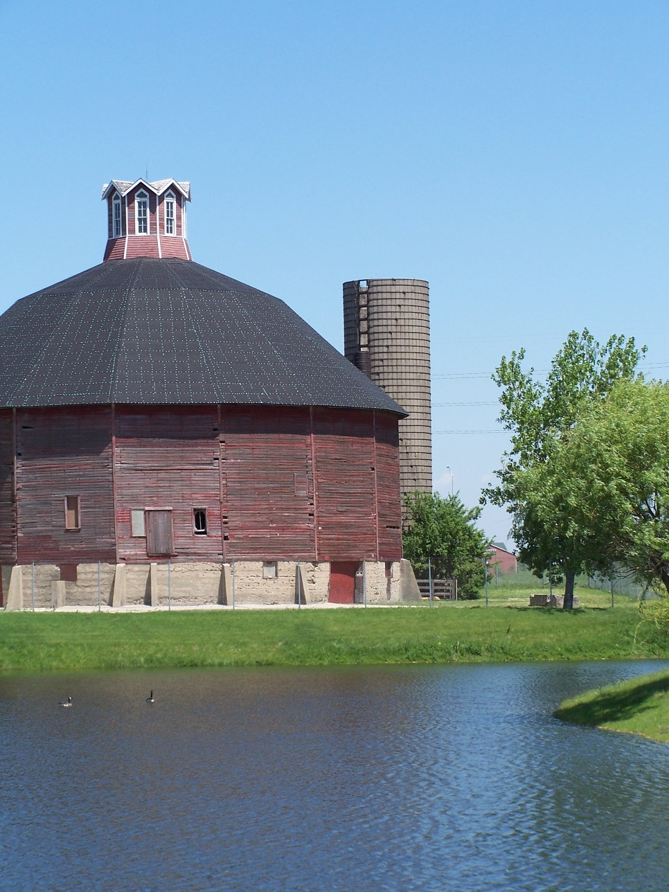 Exterior of the Teeple Barn, located along Randall Road northwest of Elgin in Kane County, Illinois, United States. Built in 1885, it is listed on the National Register of Historic Places.